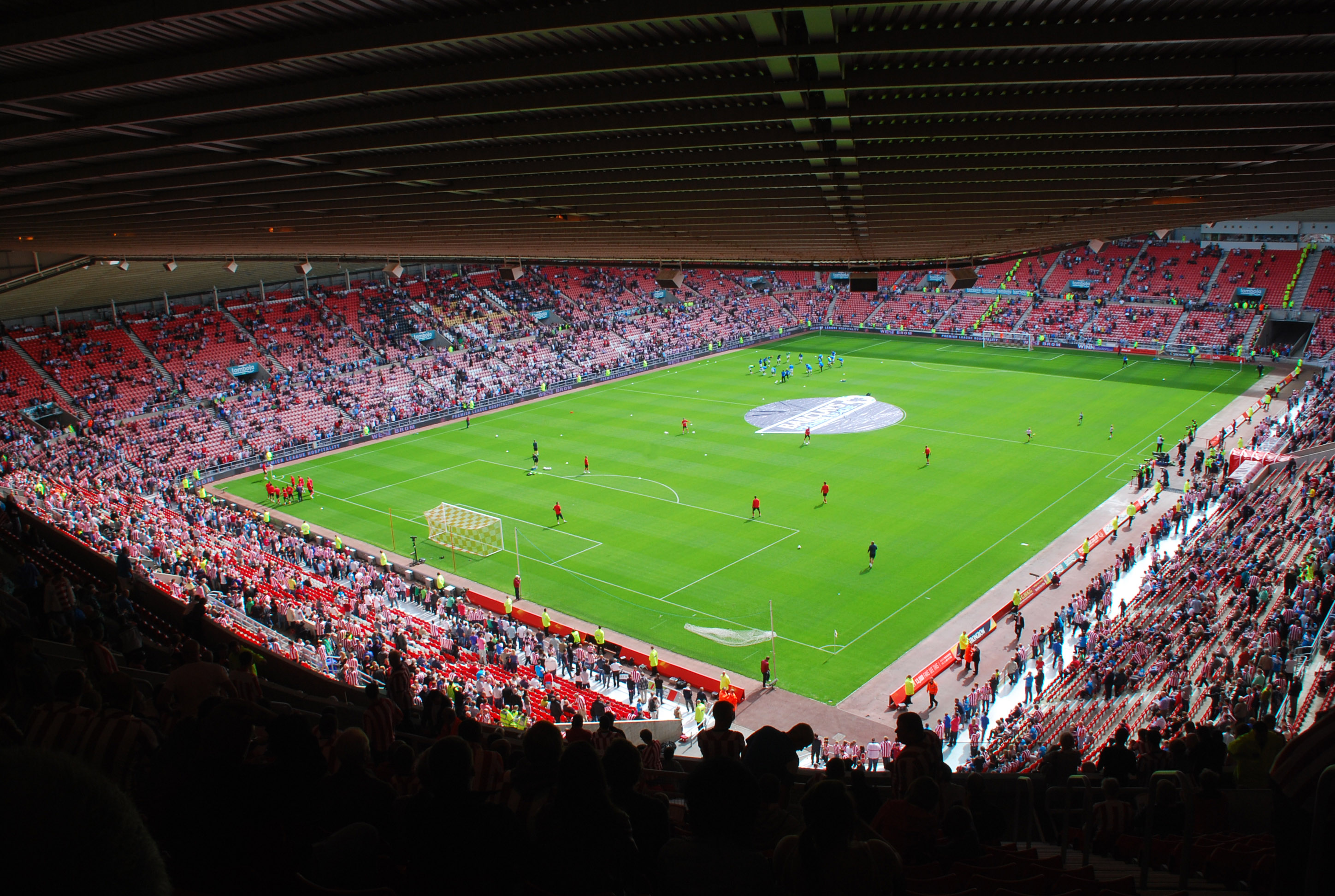 Pre match warm-up before the first home game of the 2011/12 season against Newcastle United.